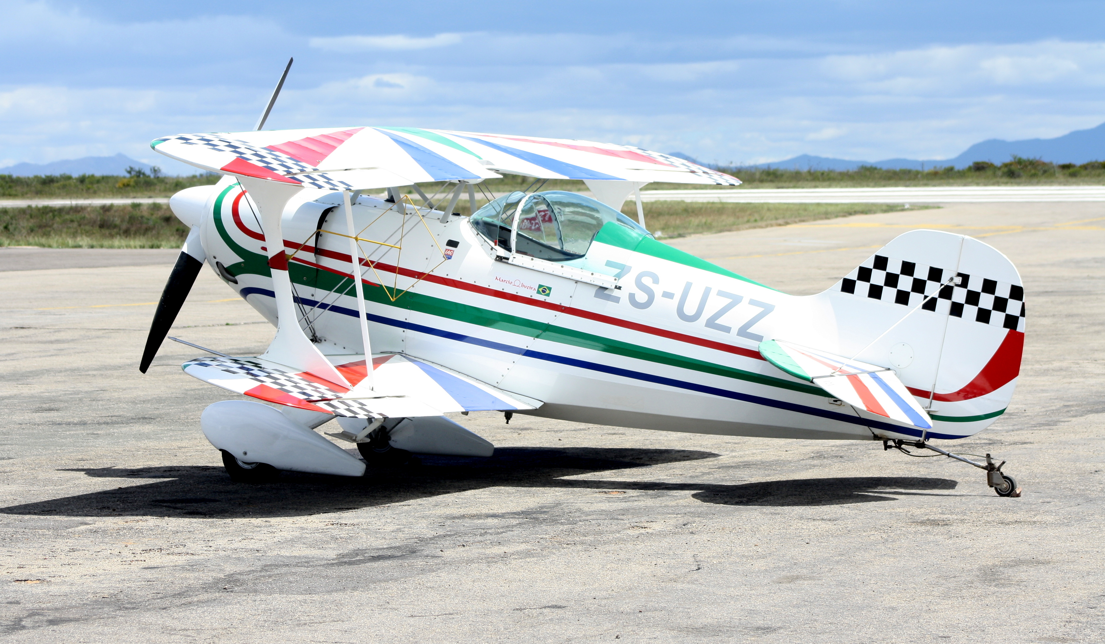 Pitts Special S1S ZS-UZZ